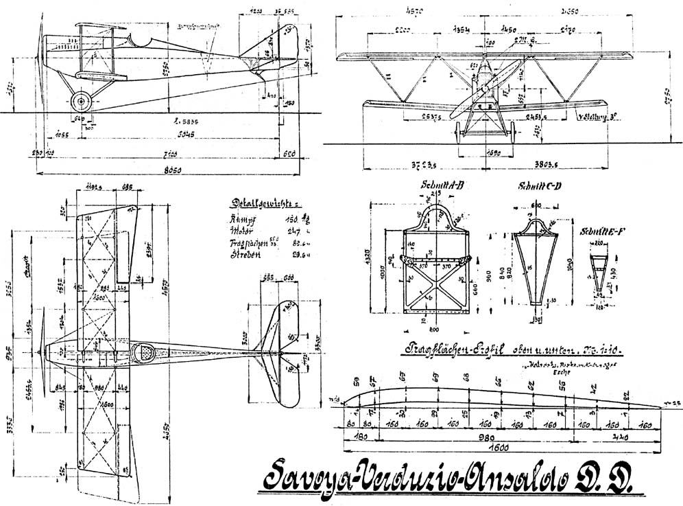 Ansaldo SVA single seat fighter drawing